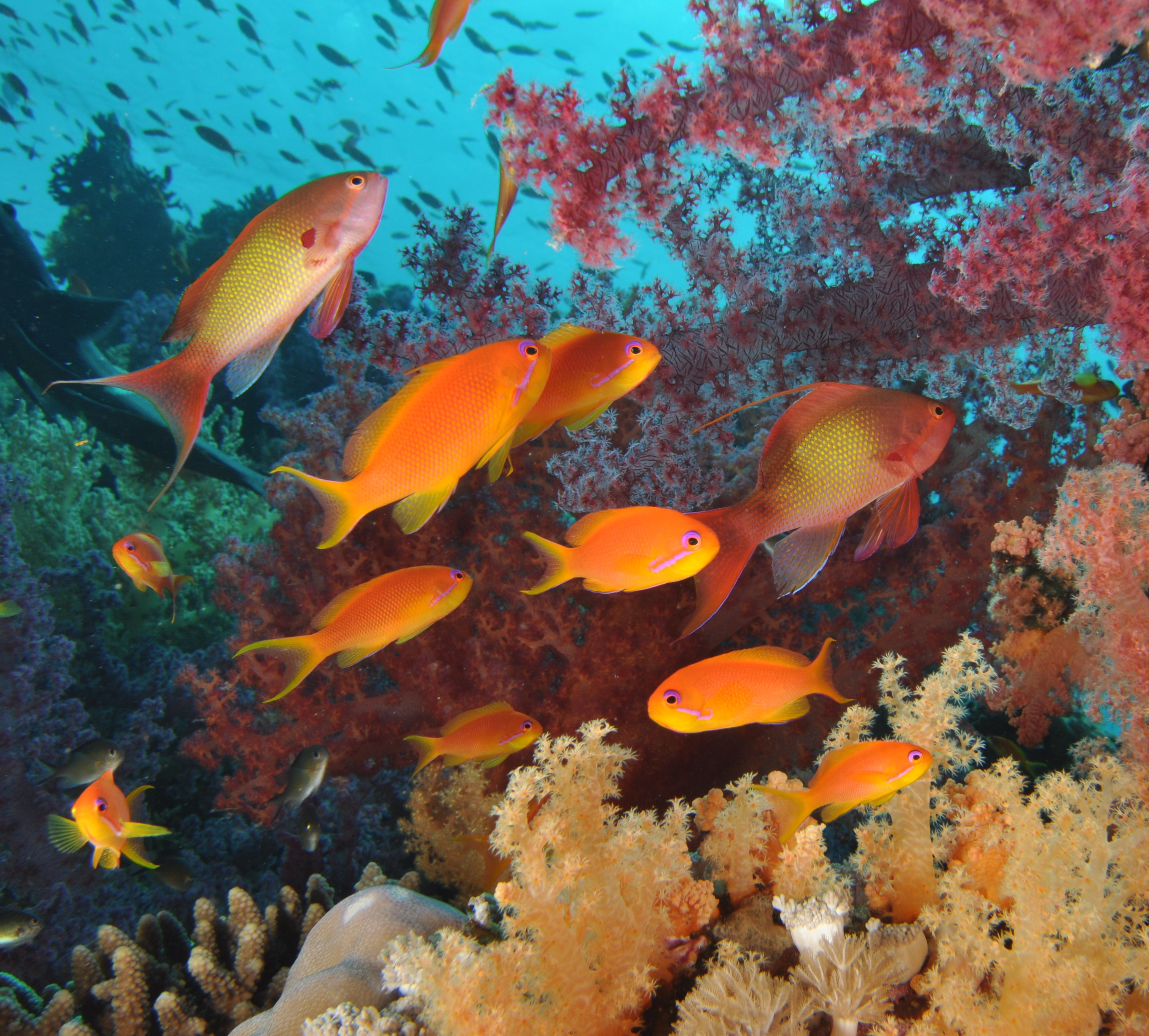 Pseudanthias squamipinnis